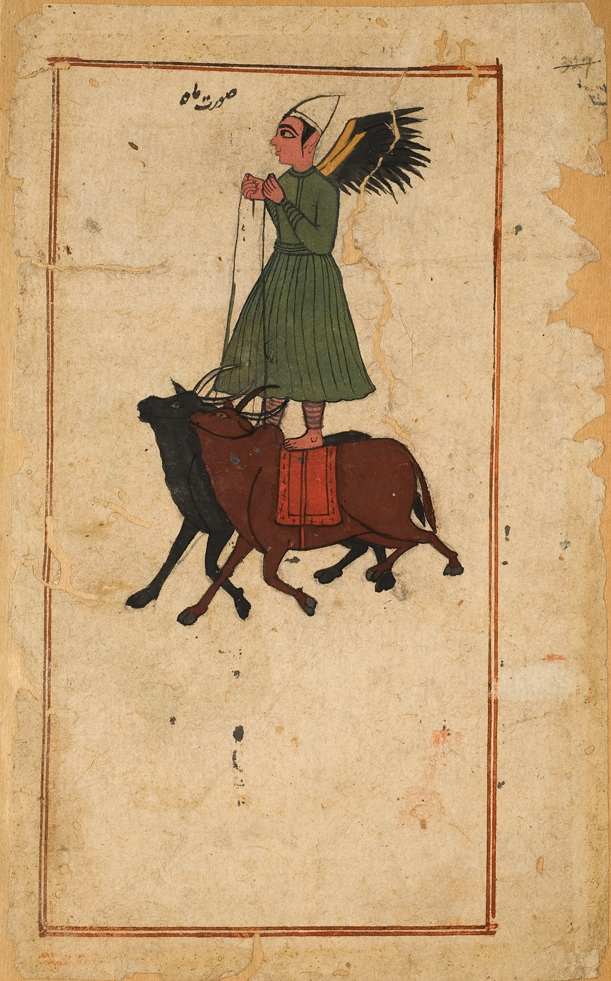 "The Moon", in al-Qazwini's "The Wonders of Creation", National Library of Medicine ms P 1, fol. 8 recto